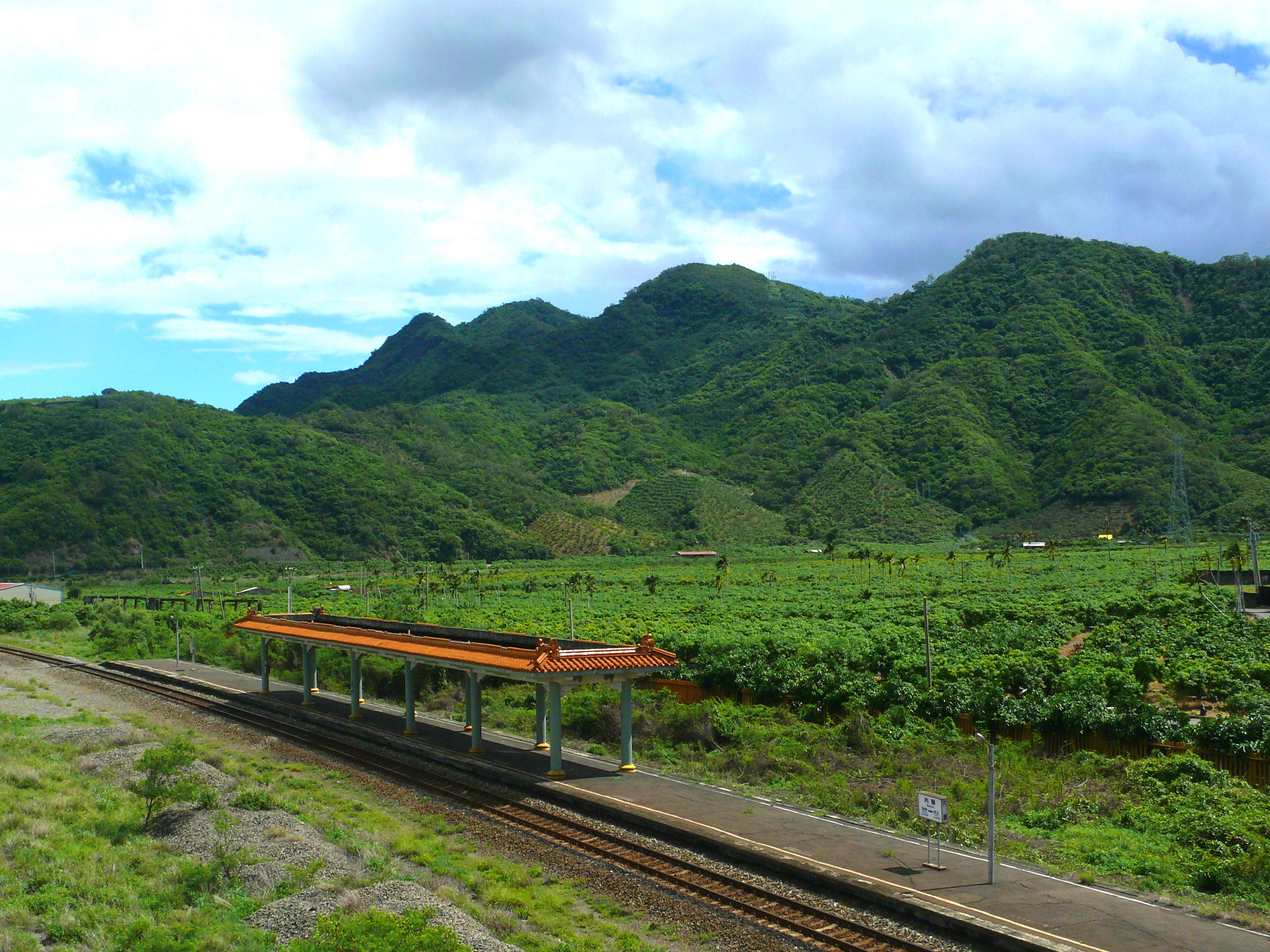 Neishi Station, Pingtung County, Taiwan.